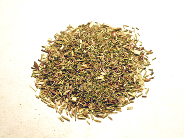 Organic green rooibos tea leaves purchased from Mountain Rose Herbs of Eugene, Oregon, United States.